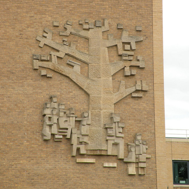 Kett's Oak Detail on Kett House, Station Road. Kett's Oak in Norfolk is where Robert Kett gathered his followers to capture Norwich castle in 1549 - I don't know whether the House is actually named after Robert Kett, though. Sandstone bas-relief, artist not recorded. ca. 1962.